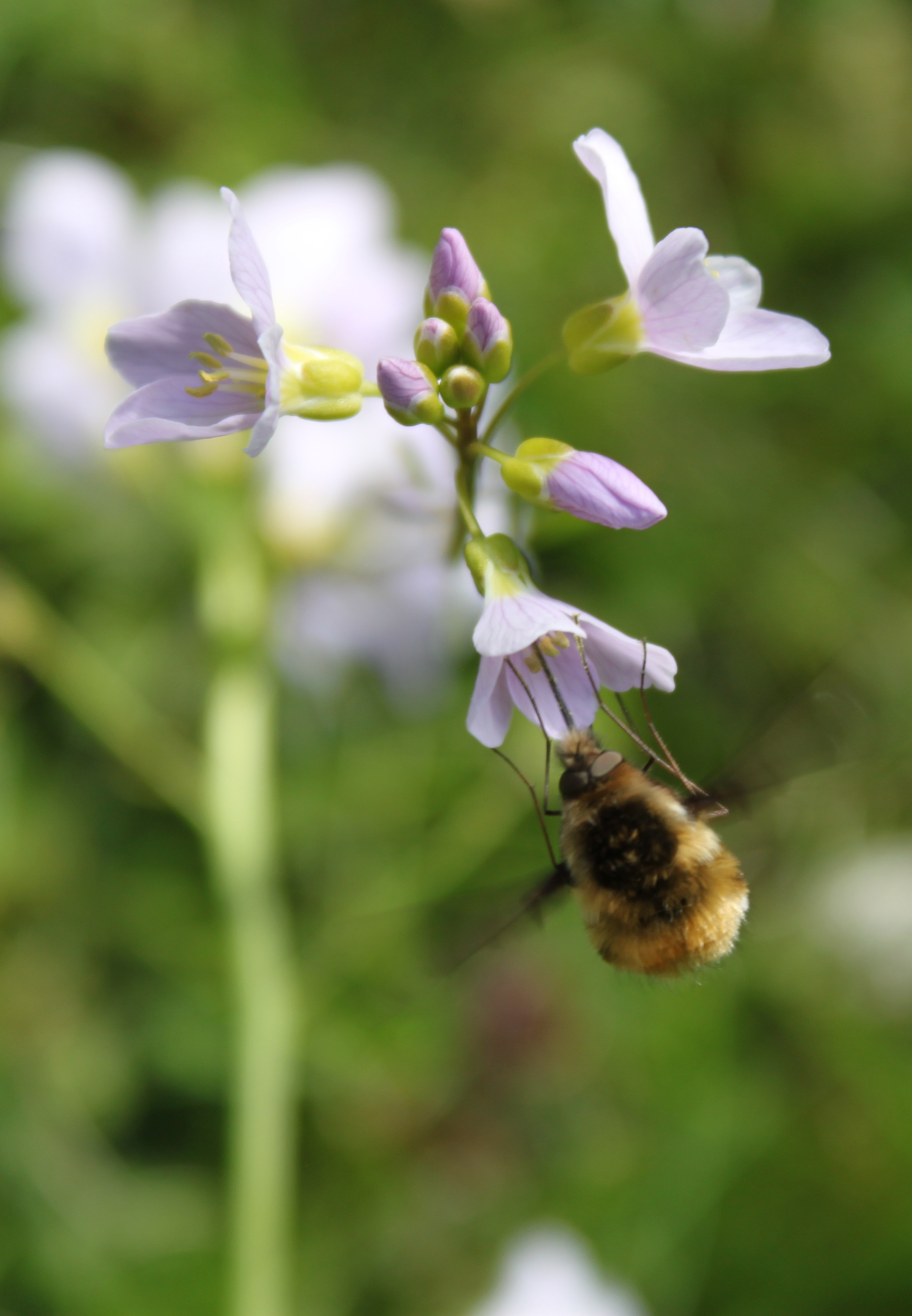 a bumblebee pollinates a flower of Cardamine pratensis